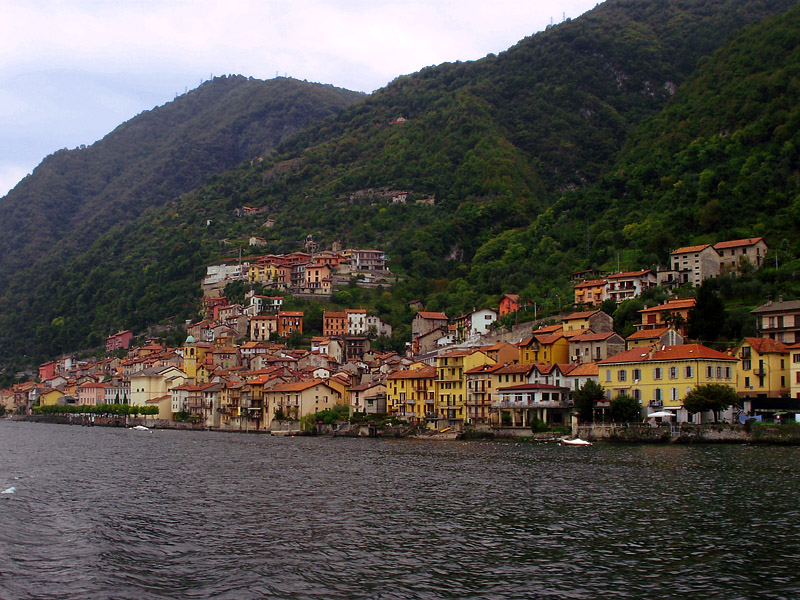 Village in Lake Como